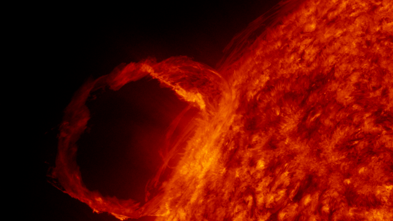 First light image from Solar Dynamics Observatory. "Soon after the instruments opened their doors, the Sun began performing for SDO with this beautiful prominence eruption. This AIA (Atmospheric Imaging Assembly) data is from March 30, 2010, showing a wavelength band that is centered around 304 Å. This extreme ultraviolet emission line is from singly ionized Helium, or He II, and corresponds to a temperature of approx. 50,000 degrees Celsius." (NASA)